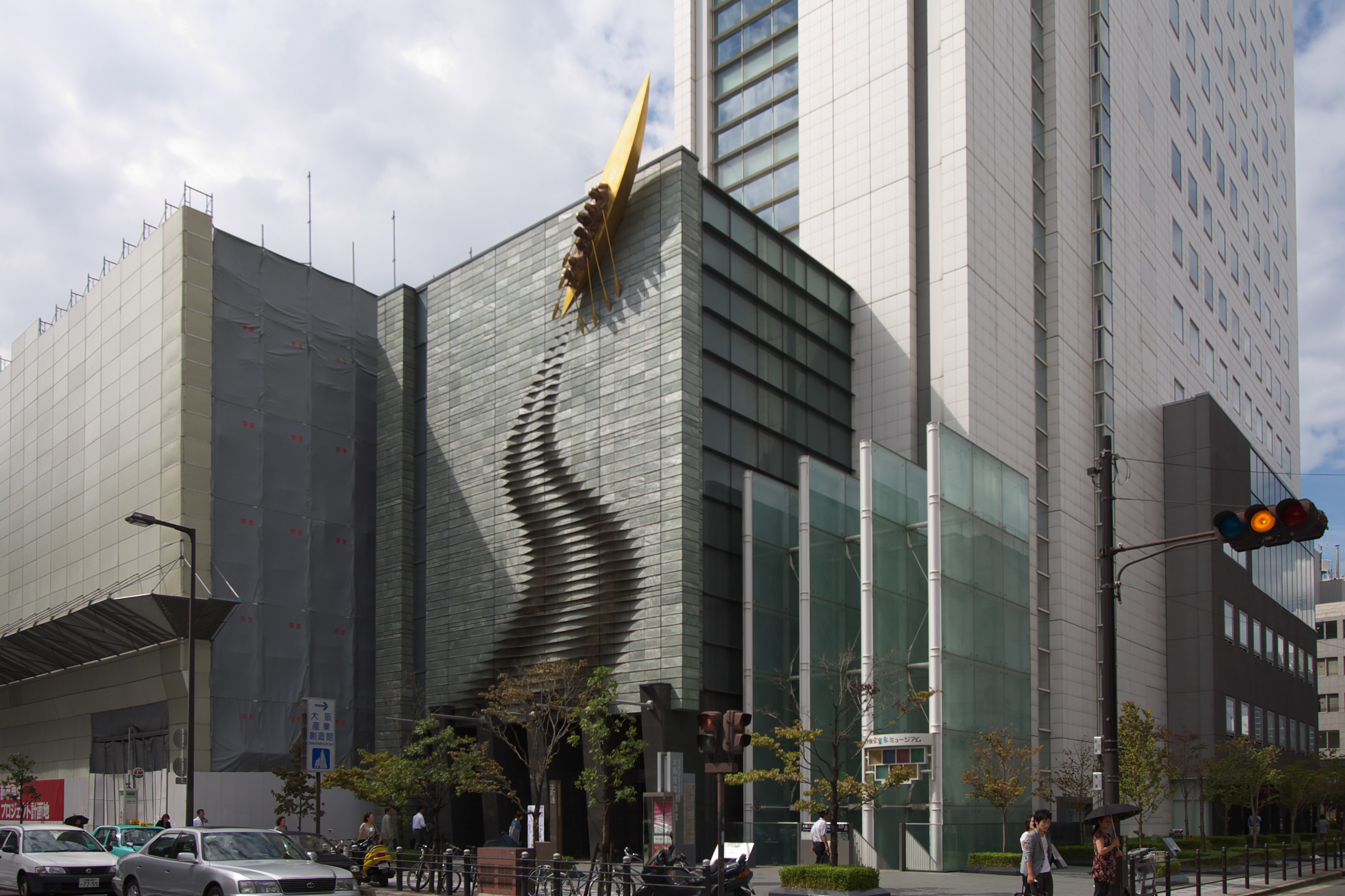 Osaka Sangyō Sōzōkan (Osaka City, JAPAN)